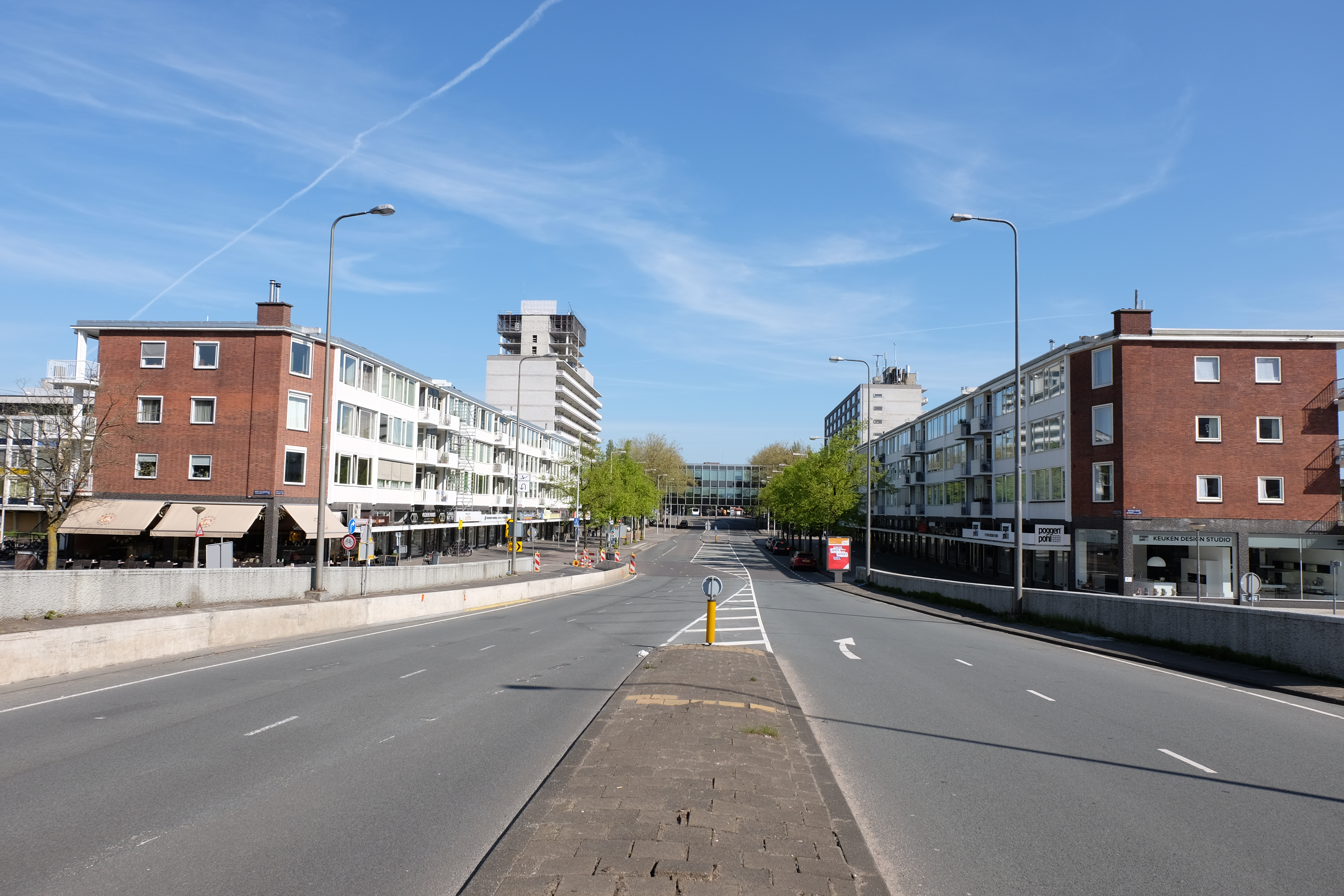 Looking north along the Parnassusweg in Amsterdam, between the Prinses Irenestraat and the Strawinskylaan.